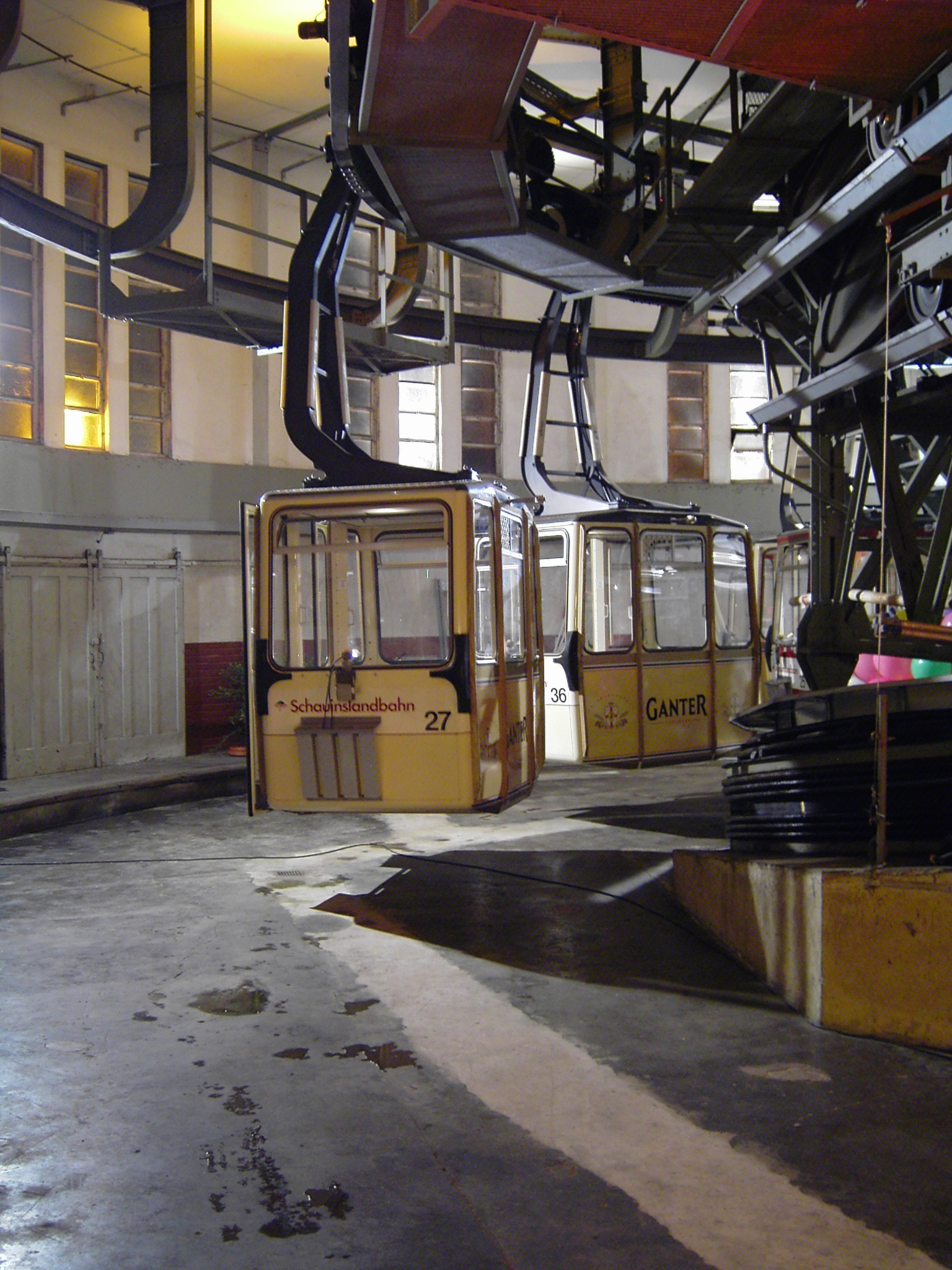 The Aerial tramway Schauinslandbahn